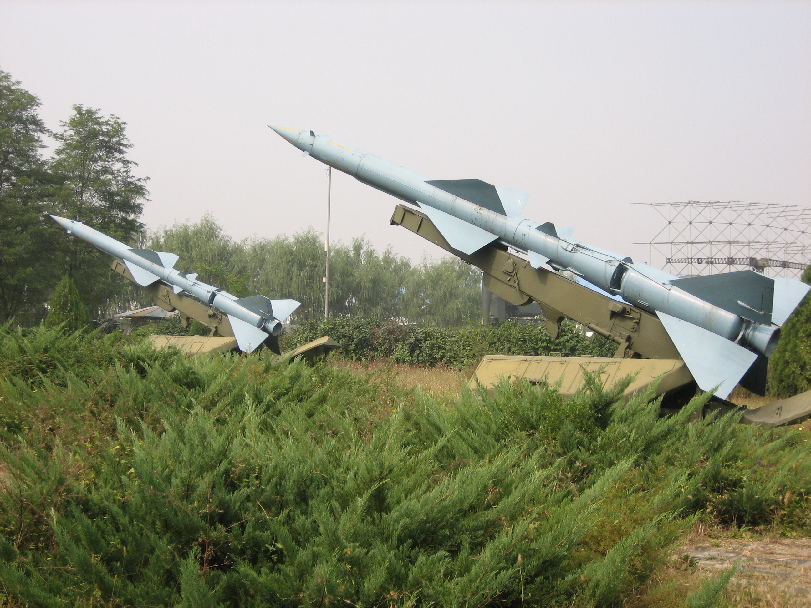 HQ-2 missiles in the China Aviation Museum.